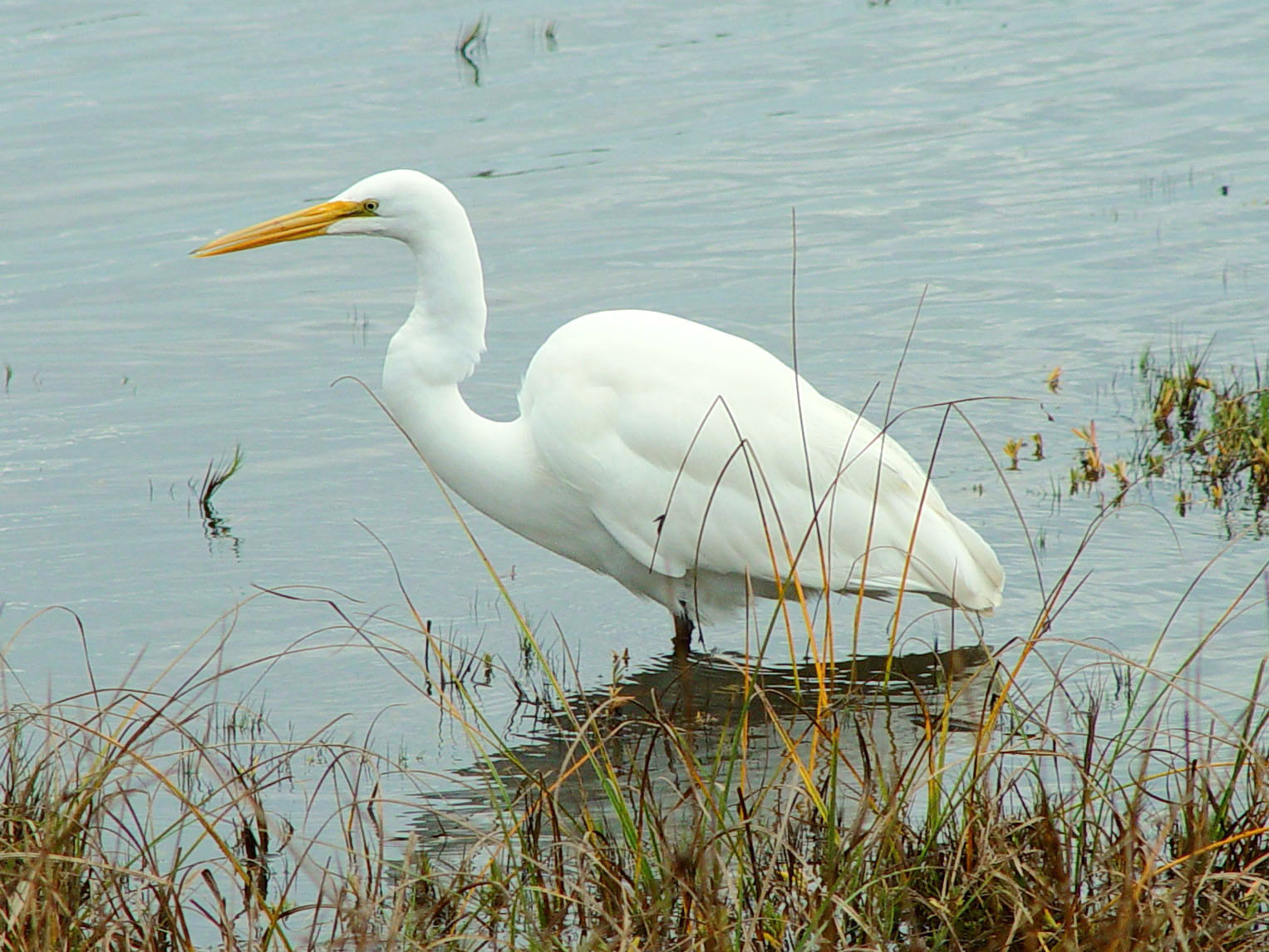 Ardea alba, Great Egret at Fort Cronkhite - Golden Gate NRA, California